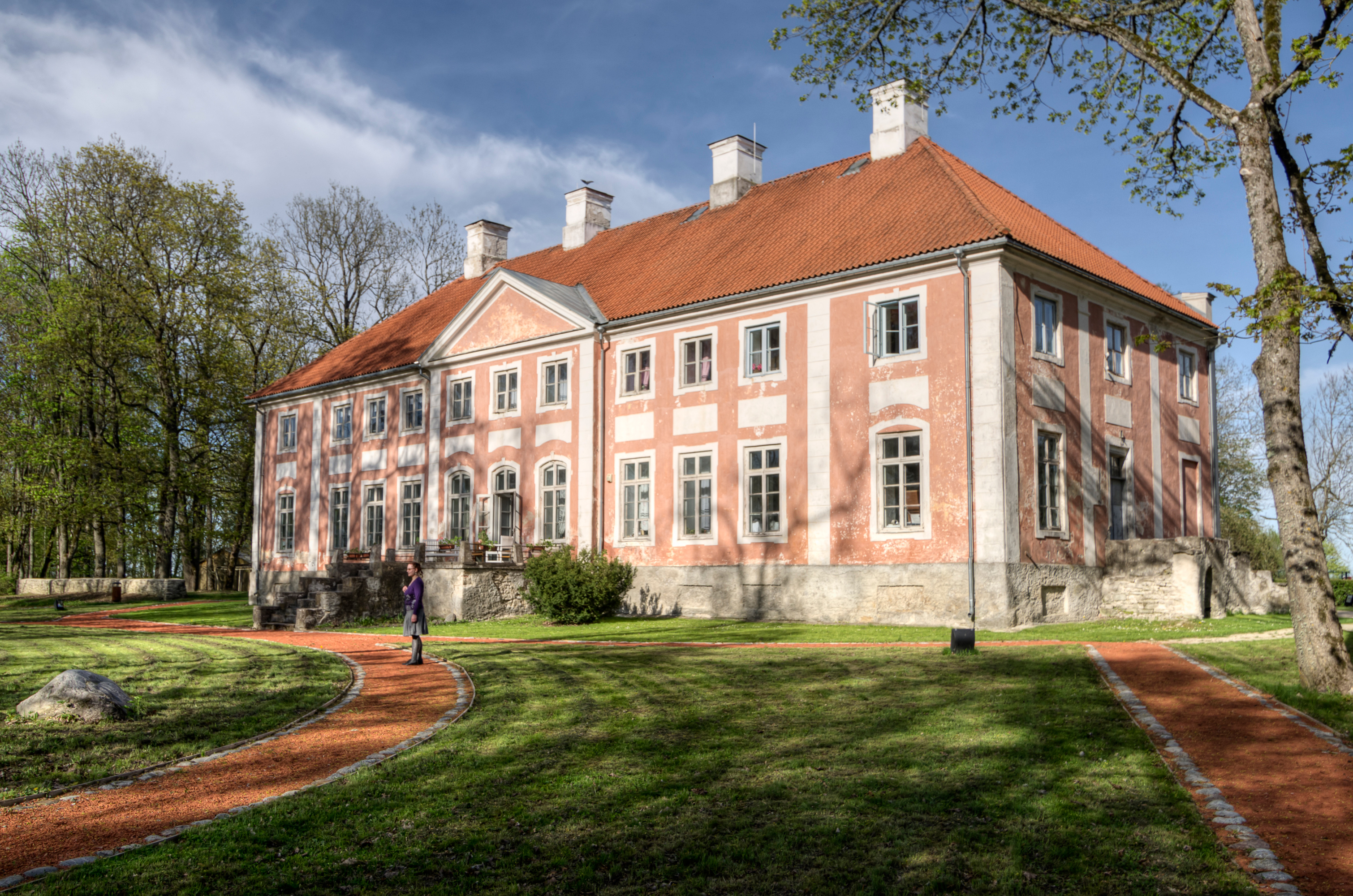 Sargvere Manor house, backside